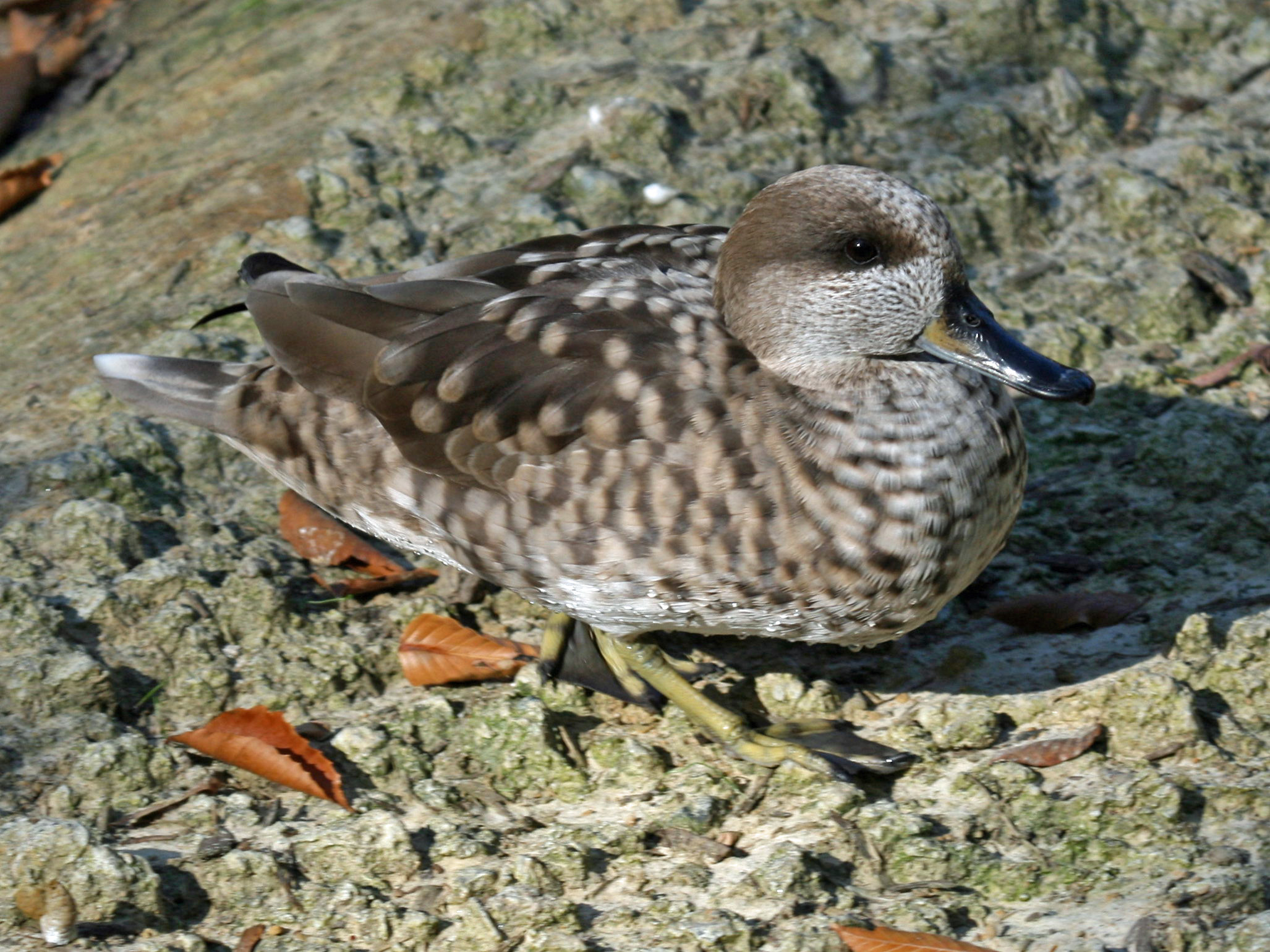 Marbled Teal (Marmaronetta angustirostris) at Sylvan Heights Waterfowl Park in Scotland Neck, North Carolina.